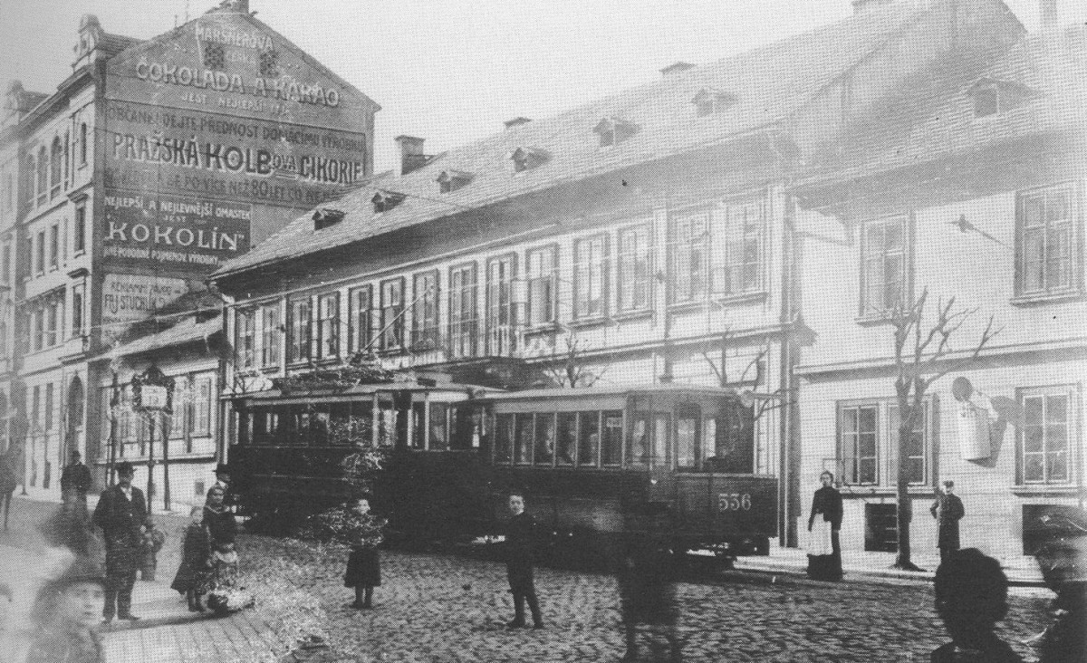 Tram trailer No. 536, Prague, Bohemia (now Czech Republic)